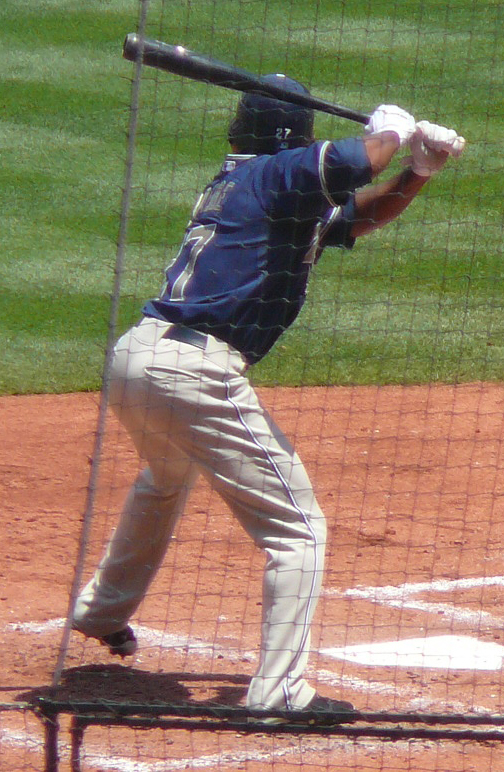 Please attribute this photo by name if used in places other than Wikipedia. 06:13, 29 May 2008 . . Chrisjnelson . . 504×772 (435 KB)